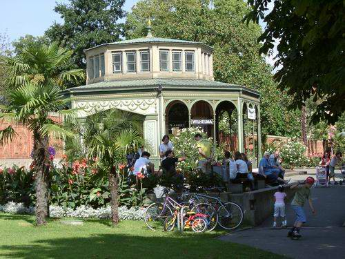 Entrance of the Wilhelma in Stuttgart-Bad Cannstatt